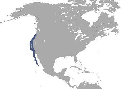 Brush Rabbit (Sylvilagus bachmani) range